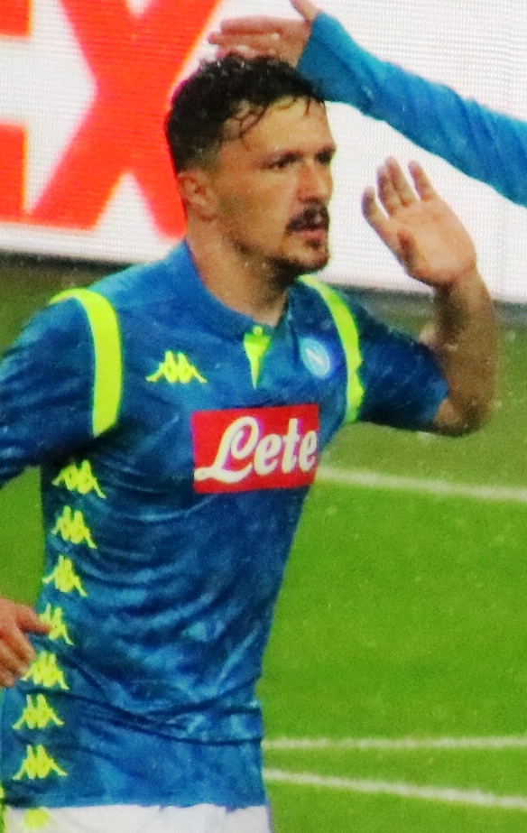 Euro League match round of 16 2nd leg